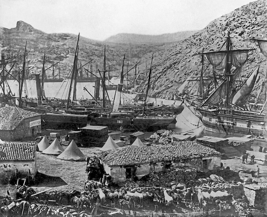 Cossack Bay, the port of Balaklava in 1855, sailing and steam ships side by side.